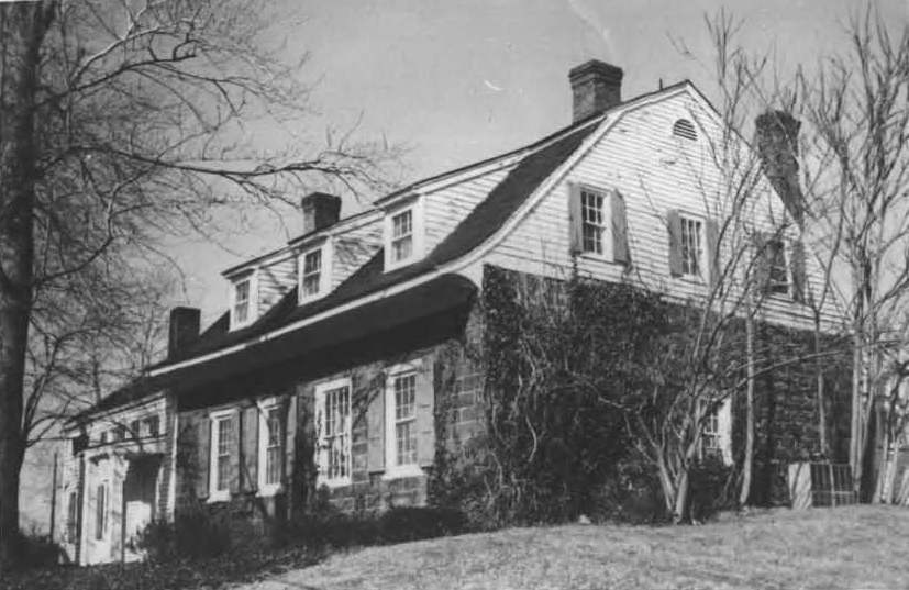 Albert J. Zabriskie Farmhouse is located at the current address of 7 East Ridgewood Avenue in Paramus, New Jersey, just east of NJ Route 17. The house was built in 1805 and was added to the National Register of Historic Places on November 7, 1977, with reference # 77000847. The photograph was scanned and cropped from page 14 of the NRHP Nomination Form.